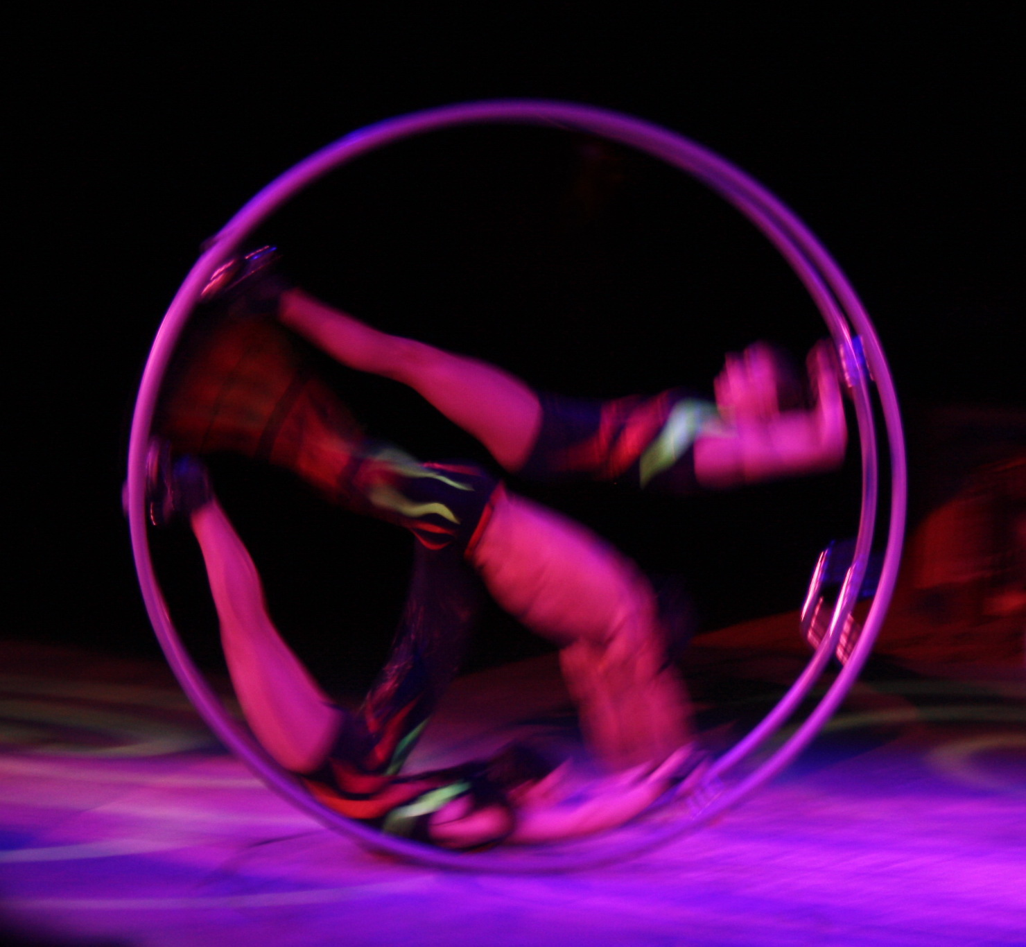 Rolling Wheels - three-man circus acrobat from Hungary at the Wheel.